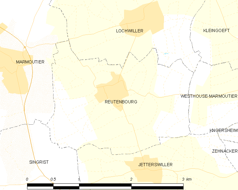 Map of French municipality